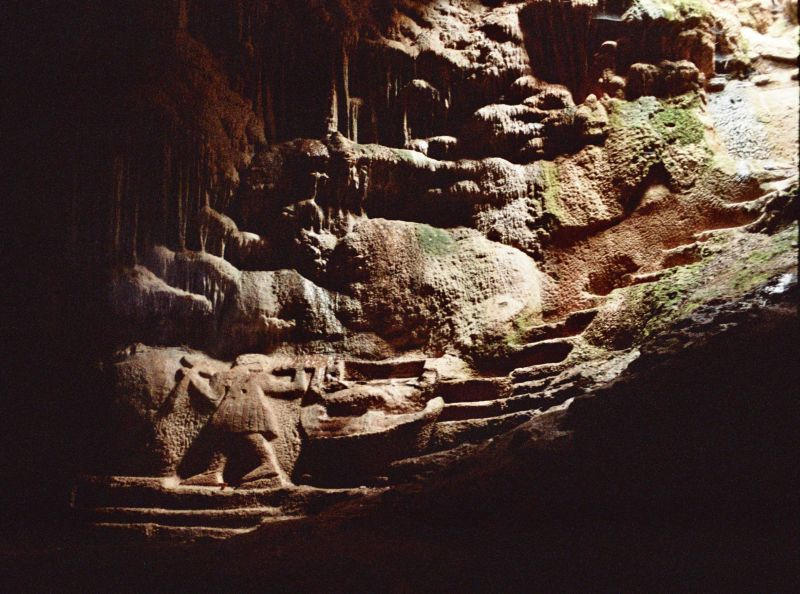 Image from January 2006 showing the self-portrait of Archedemos the Nympholept and some of the steps carved out as an entrance to the cave.